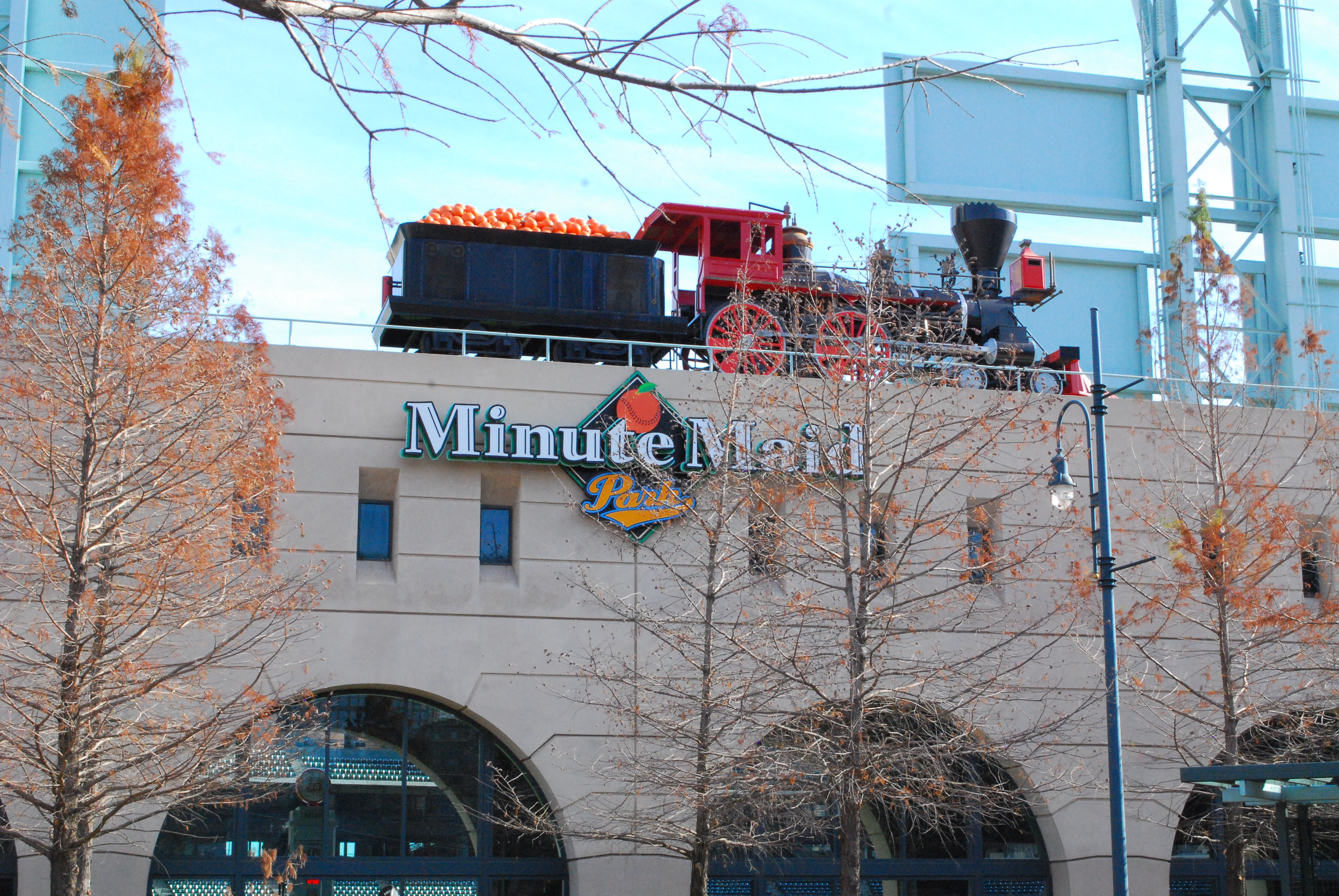 A view of the train at Minute Maid Park from the exterior wall